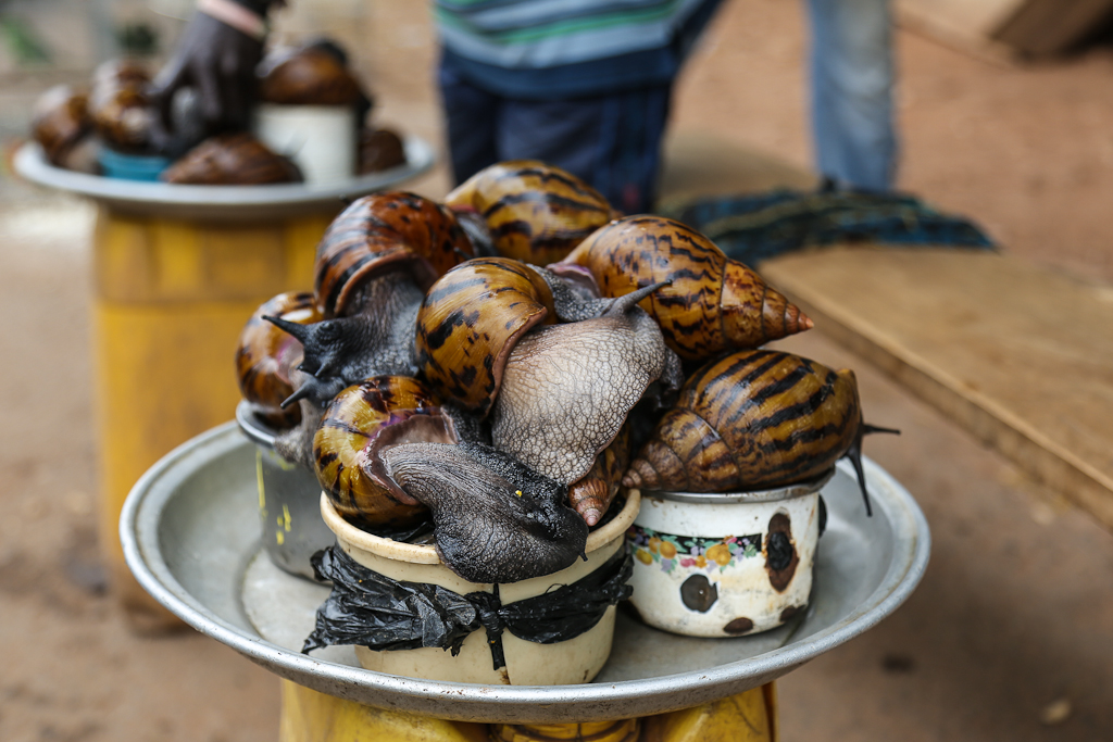 Ghana snails alive This is an image of food from Ghana